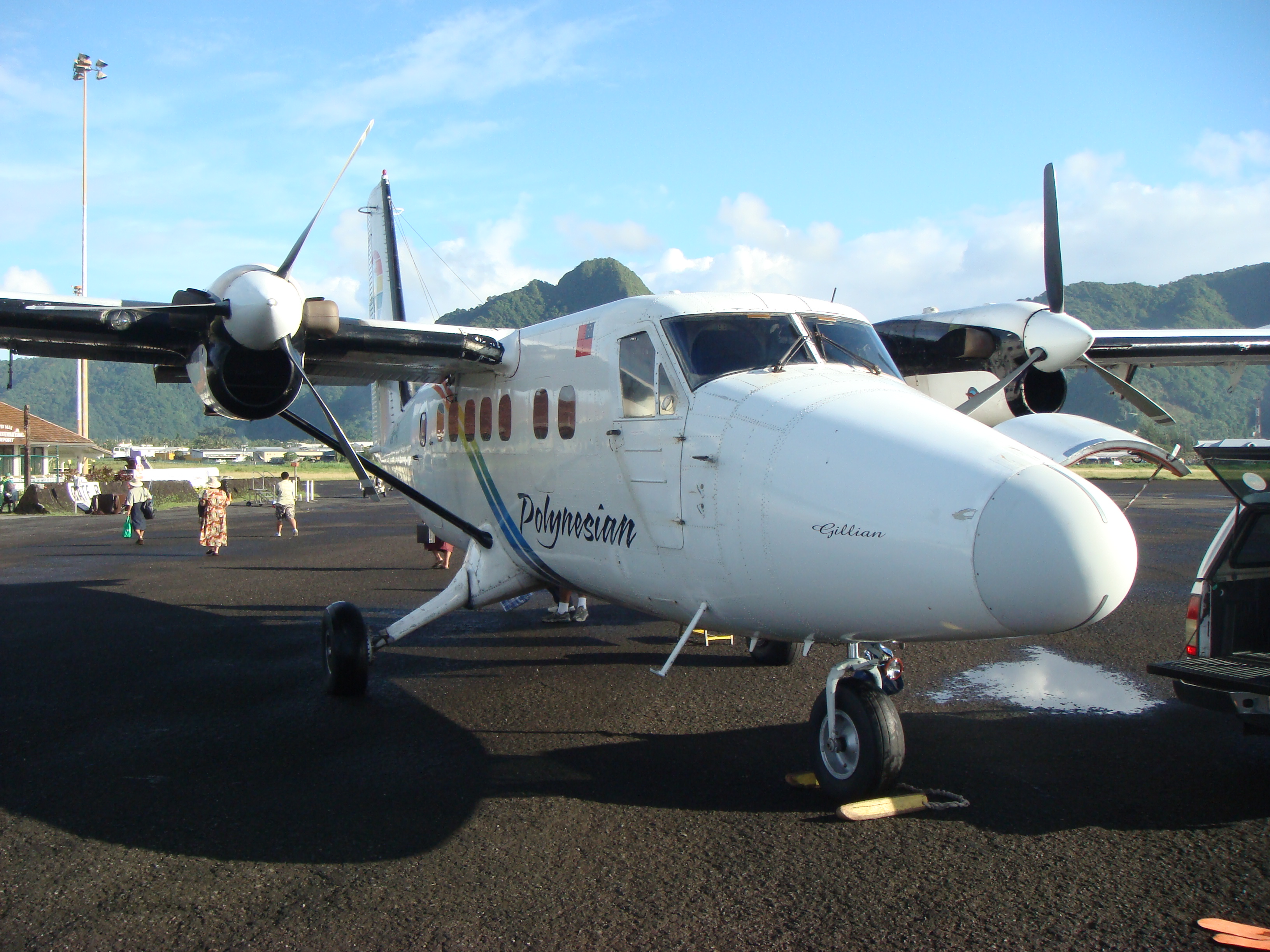 Polynesian Airlines DHC 6 - 300 5WFAY at Pago Pago International Airport.